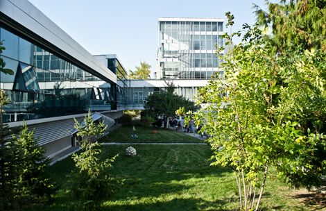 NBU campus